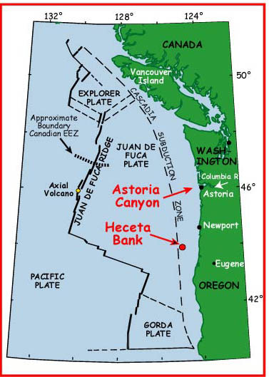 Image courtesy of Lewis and Clark Legacy 2001